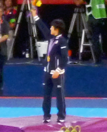 Medalists at the London 2012 Olympics Women's Freestyle Wrestling (48 kg): Obara, Stadnyk, Huynh, Chun